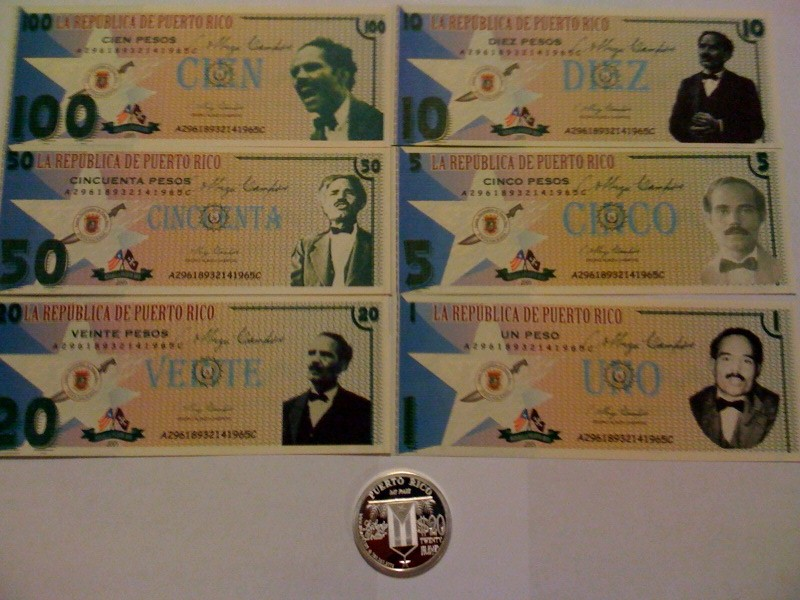 A variety of contemporary currency from Puerto Rico. Banknotes of all denominations from the 2005 Puerto Rican Nationalist Party issue (top) and a 2007 Puerto Rico Liberty Dollar (bottom).